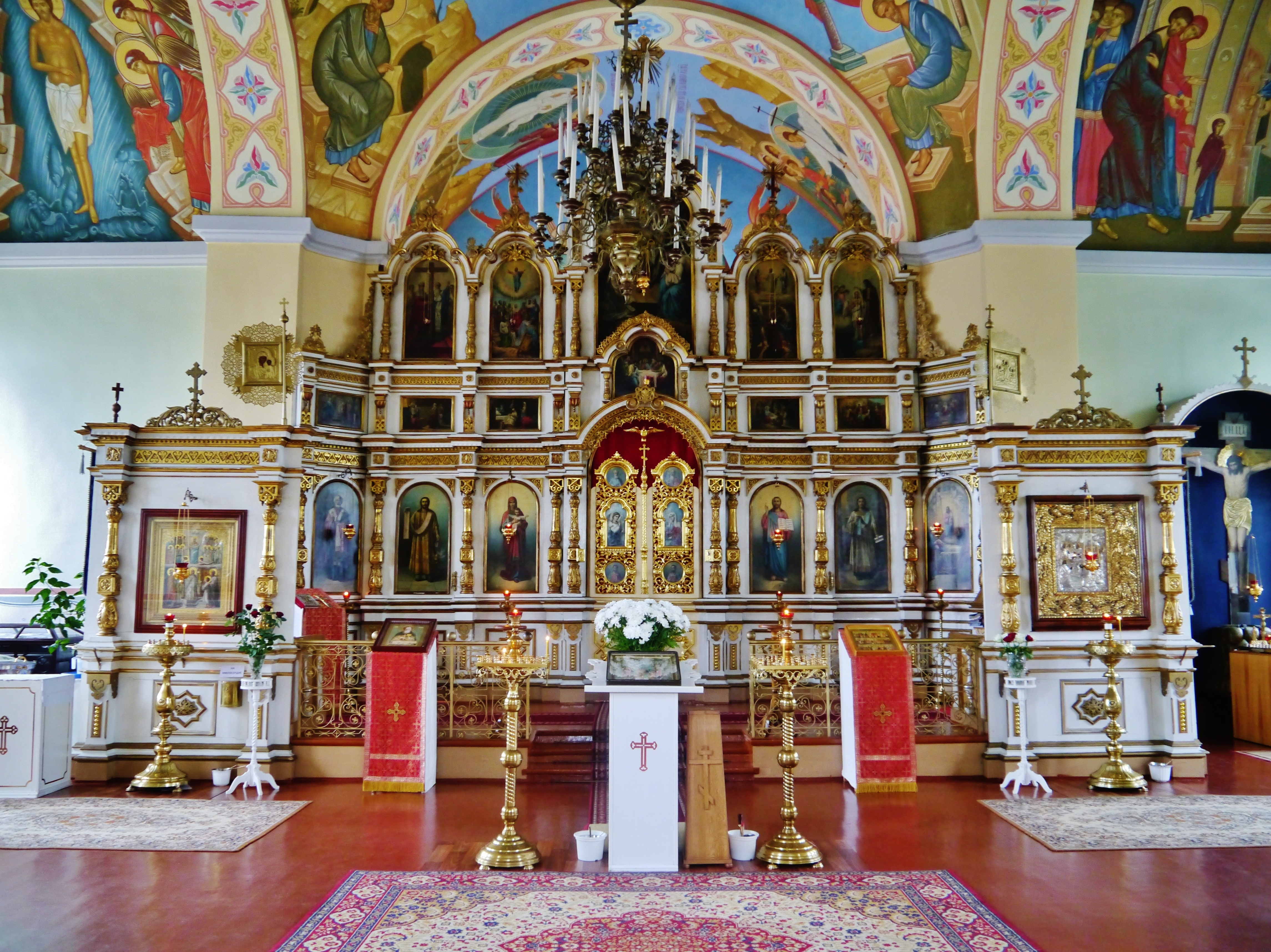 Iconostasis of the Orthodox Church, Ludza, Latvia